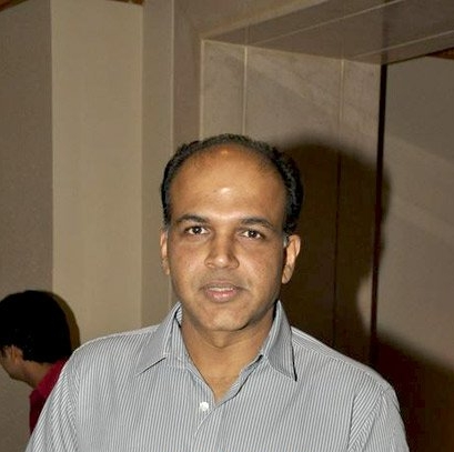 Ashutosh at the launch of 'UTV Stars' channel